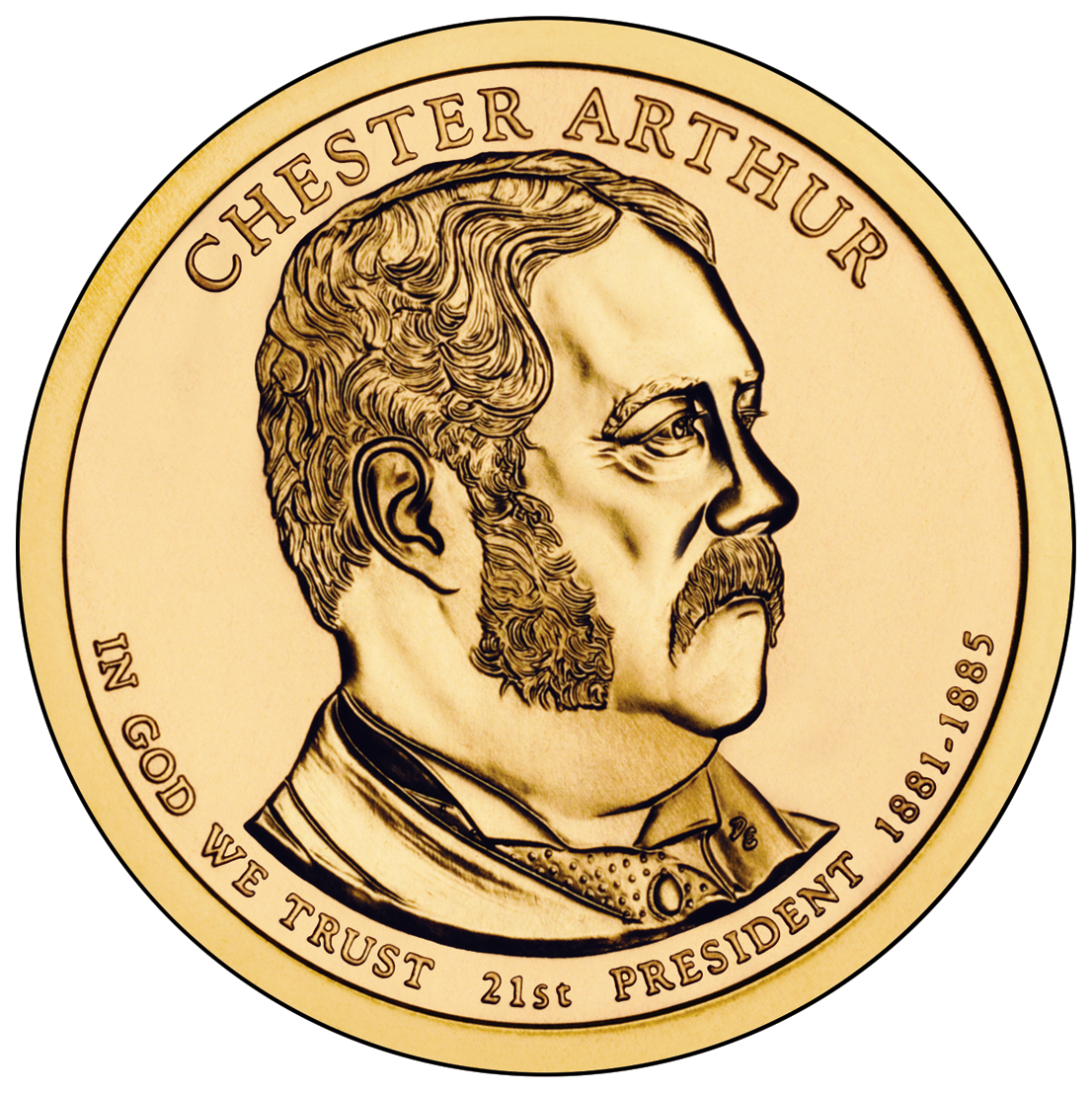 Presidential $1 Coin Program coin for Chester Arthur. Obverse.